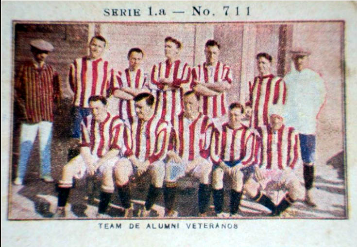 Alumni A.C. veteran players in a collectible card of Argentina. The club had dissolved in 1911 but its players continue active during several years.